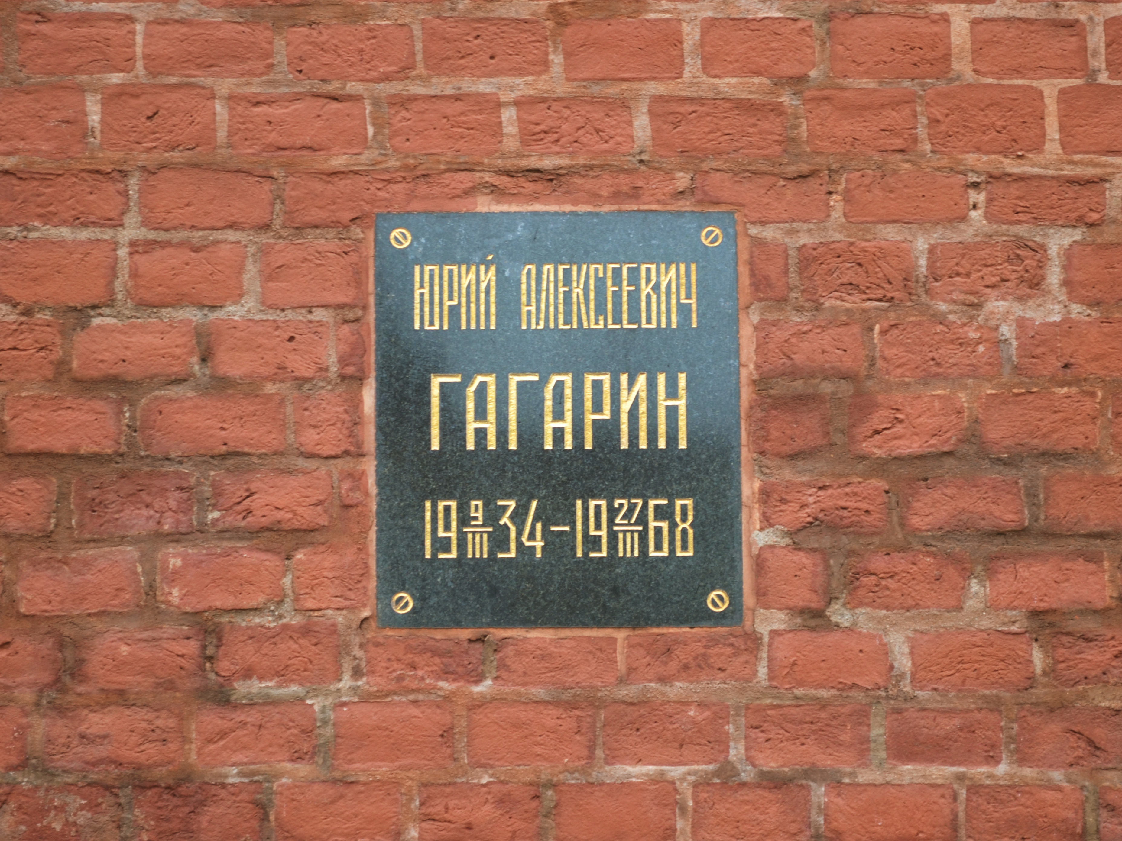 The urn with Y. A. Gagarin's (the 1st cosmonaut in the world) remains (1934-1968), Moscow Kremlin, Moscow, Russia